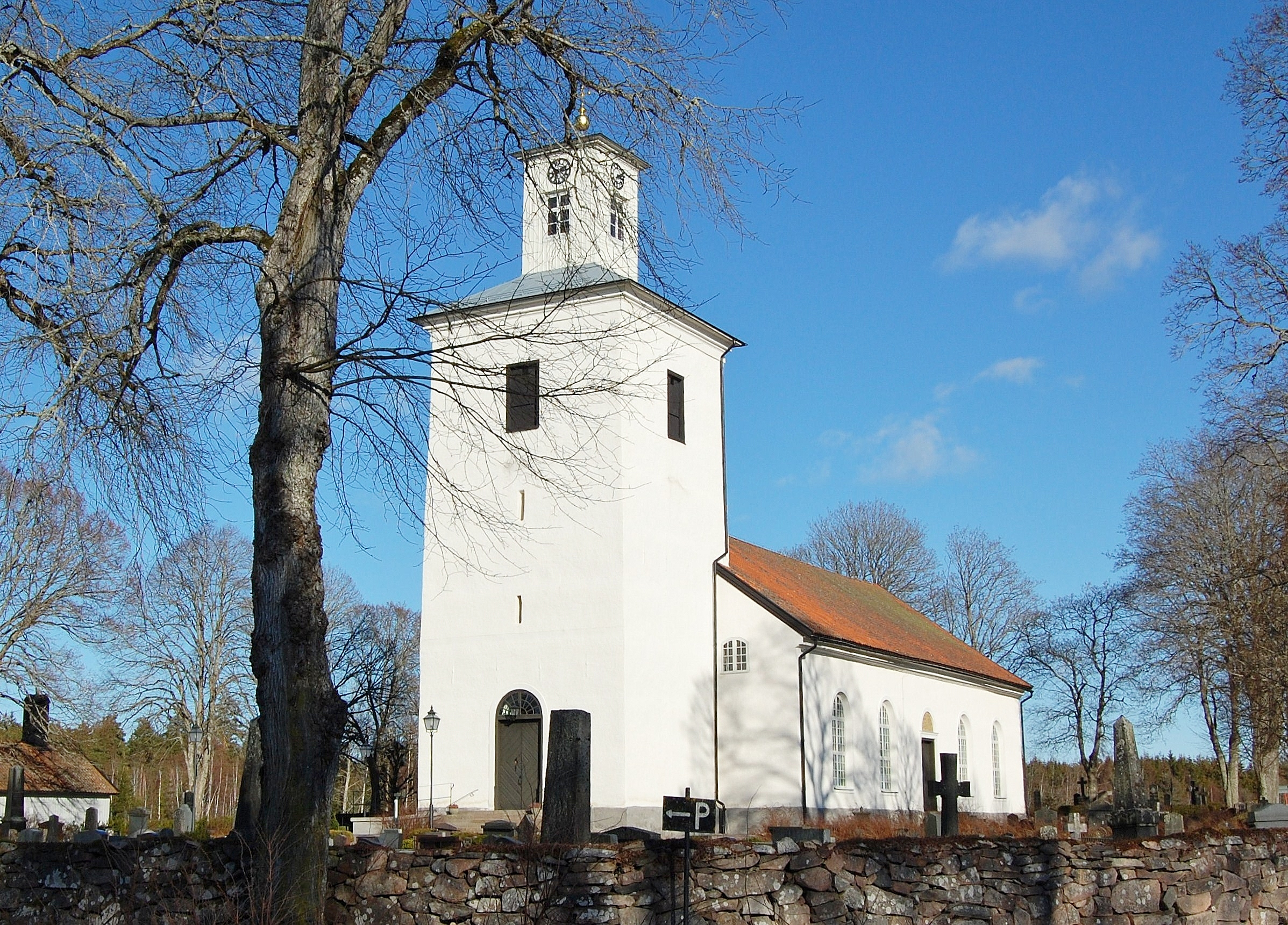 Kristvalla church.The Church was built in neo-classical style, designed by Gustaf a. Pfeffer and inaugurated on May 17 1795 of Kalmar diocese Bishop Martin Georg Wallenstråle.